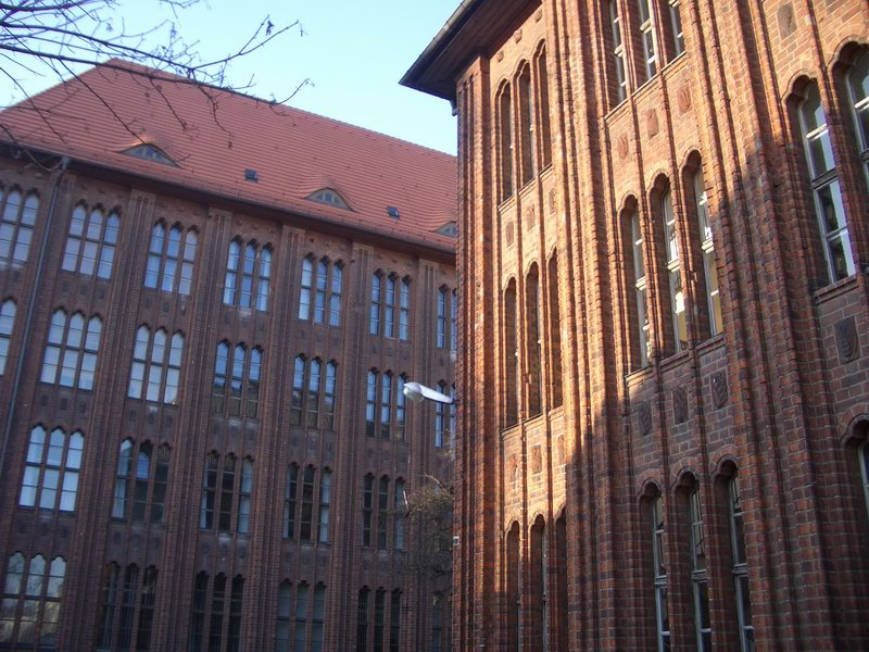 Heinrich Schliemann high school, Prenzlauer Berg, Berlin (Arch.: Ludwig Hoffmann), expressionist architecture.